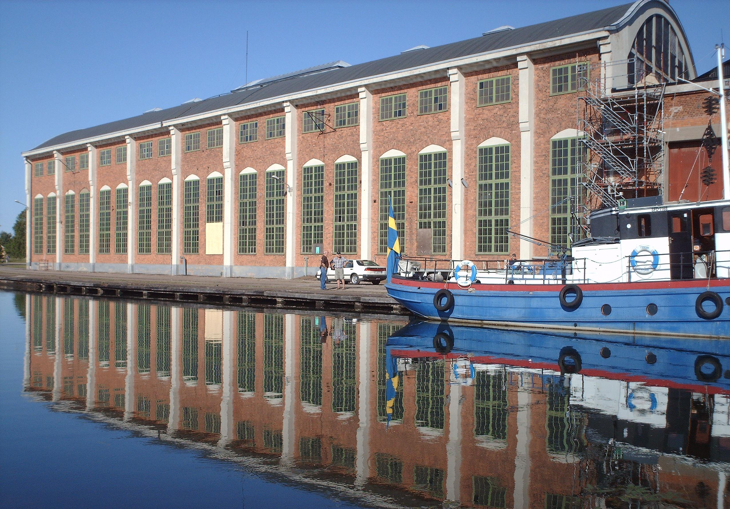 Lokverkstaden, Motala, Sweden.